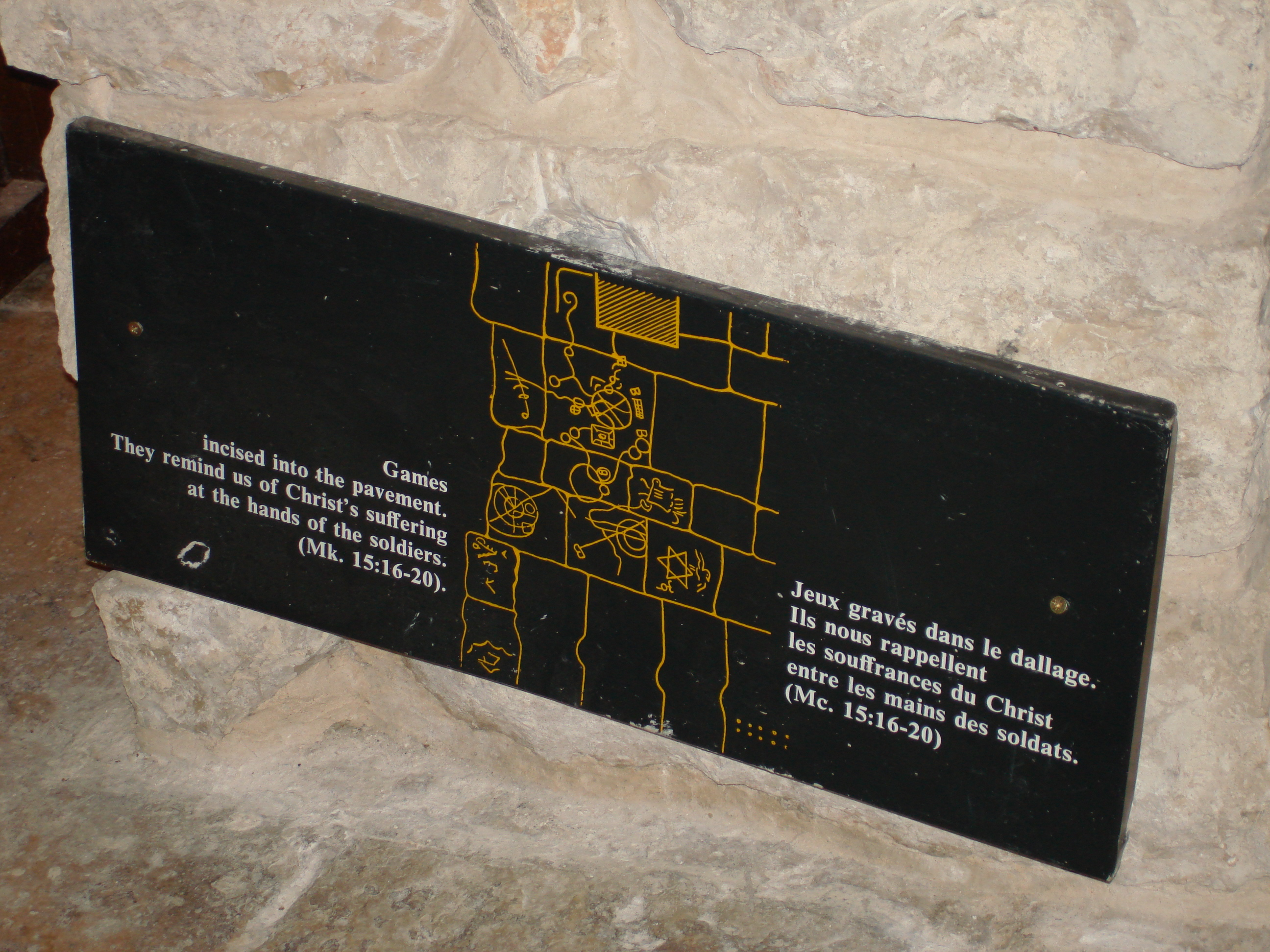 Lithostrotos. Picture of game of King.